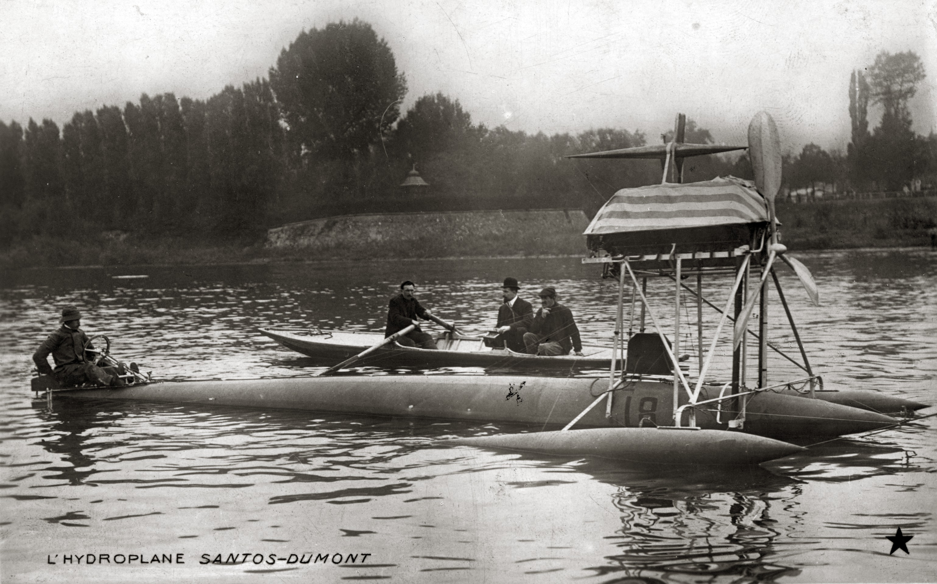 Title: "L'hydroplane Santos-Dumont." (Santos-Dumont hydroplane from the Department of Transportation at the 1904 World's Fair).